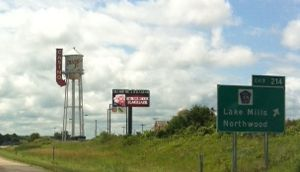 Diamond Jo's casino uses a watertower for advertising next to I-35. This view is taken while driving south